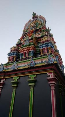 Kumbakonam neelakandeswari temple vimana கும்பகோணம் நீலகண்டேஸ்வரி கோயில் விமானம்